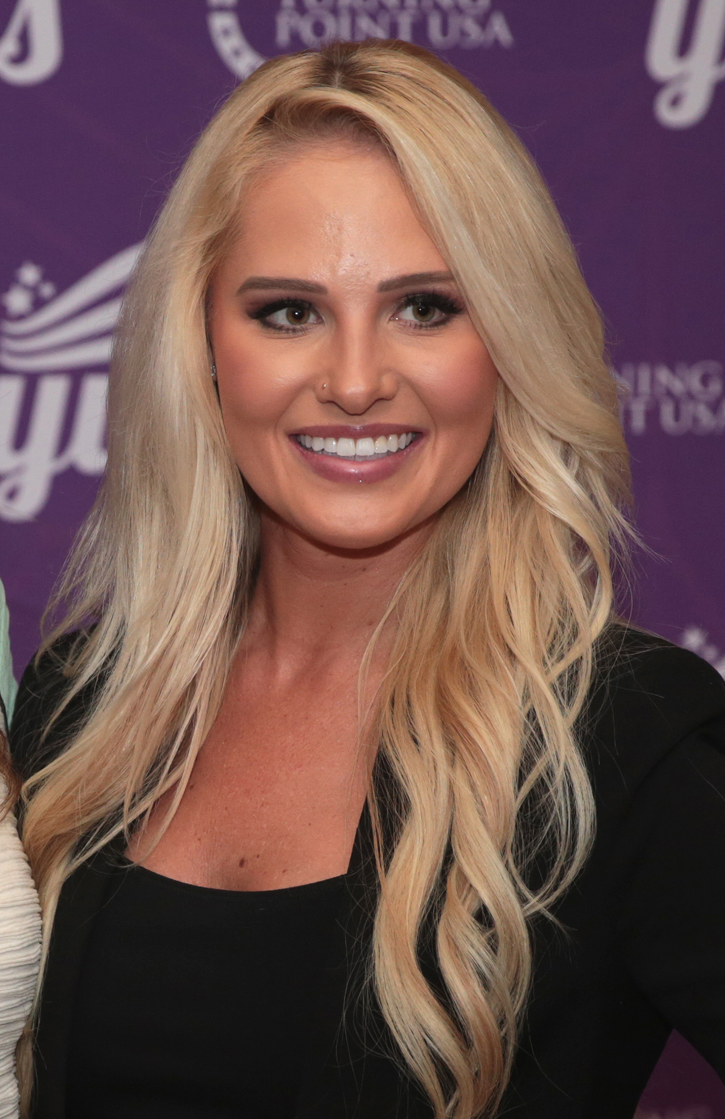 Tomi Lahren speaking at an event in Dallas, Texas.